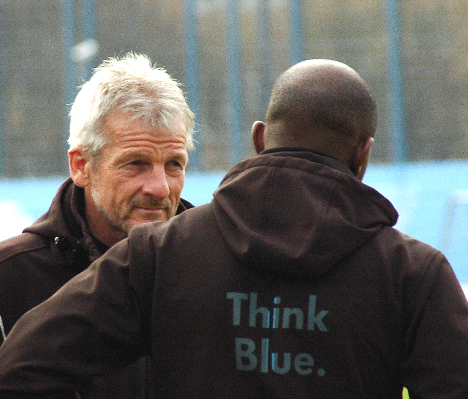 Kurt Kowarz with co-Trainer Collin Benjamin